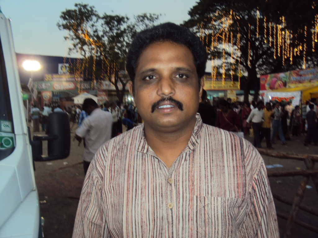 Tamil novelist Su. Venkatesan - winner of 2012 Sahithya Academy award for his work 'Kaval Kottam'